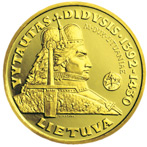 100 litas coin issued to honour Vytautas, the Grand Duke of Lithuania (From the series "The Rulers of Lithuania") Gold Au 999.9 Quality proof Diameter 22.30 mm Weight 7.78 g The words on the edge of the coin: IS PRAEITIES TAVO SUNUS TE STIPRYBE SEMIA* (FROM THE PAST LET YOUR SONS DERIVE THEIR STRENGTH) The designer of the coin is Antanas Zukauskas Mintage 2,000 pcs Issued 2000 Distributed 2,000 pcs The coin was minted at the state enterprise Lithuanian Mint